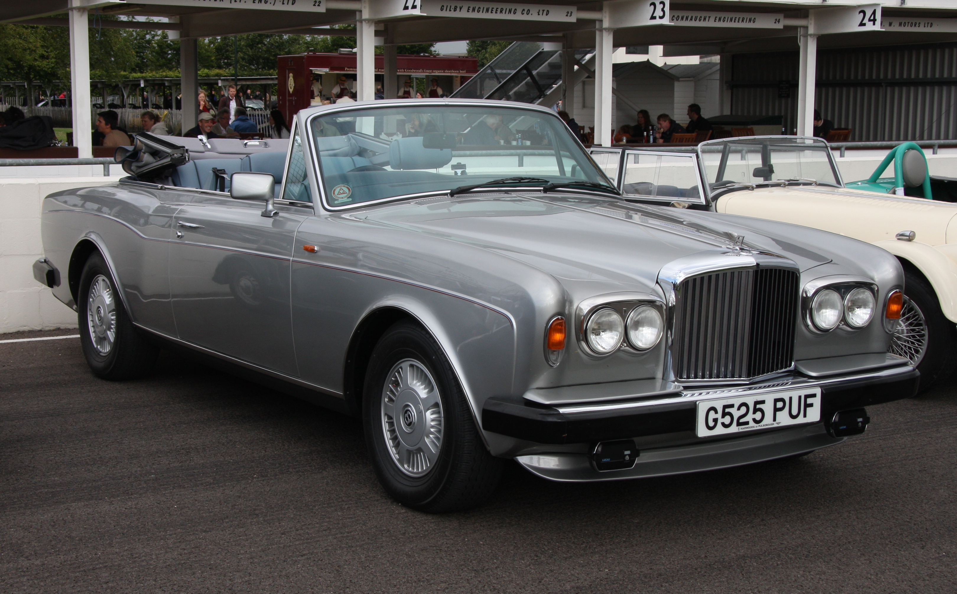 1989 or 1990 Bentley Continental